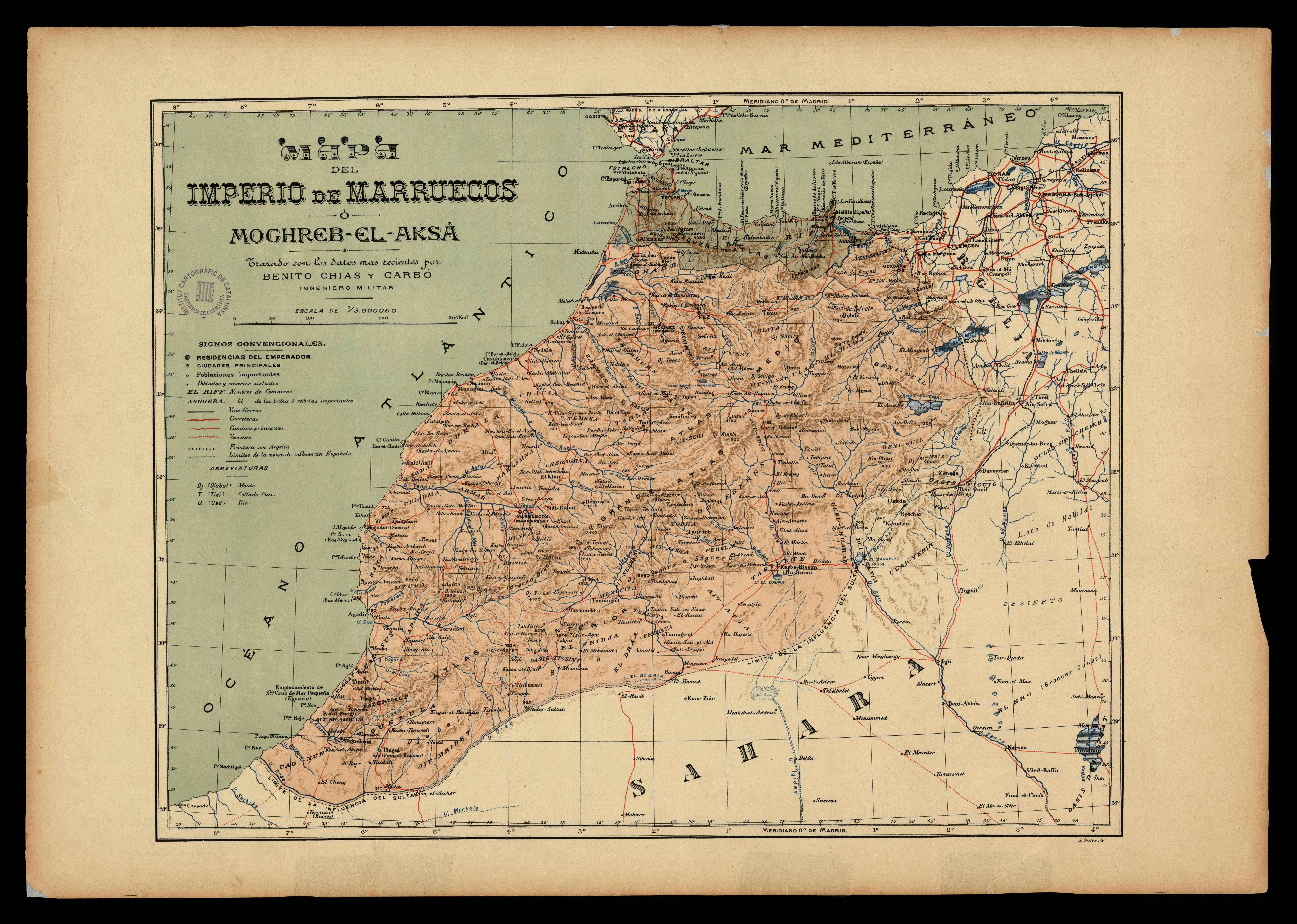 Map of the Empire of Morocco or Moghreb-El-Aksa